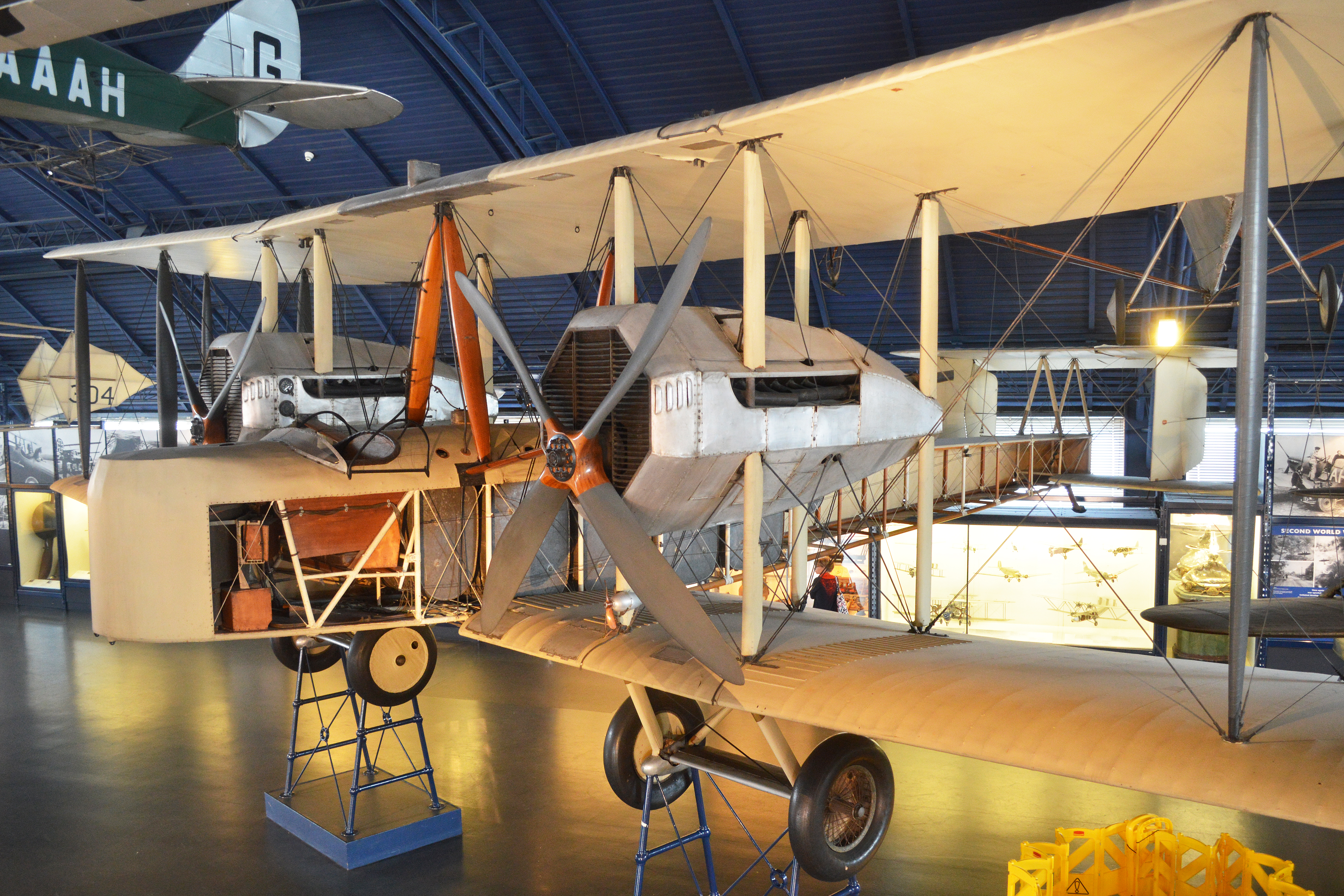 Built 1918 This is the aircraft in which John Alcock and Arthur Whitten Brown made the first non-stop crossing of the Atlantic in June 1919. The Vimy had been designed in 1917 as a bomber, but when the First World War ended this example was converted with extra fuel tanks to attempt the crossing. The pair left Newfoundland on 15 June and landed at Clifden in Connemara, Ireland some 16 hours later to become national heroes. It joined the Science Museum in 1919 and is remains on display in the ‘Flight’ Hall. Science Museum, South Kensington, London. 16-6-2015